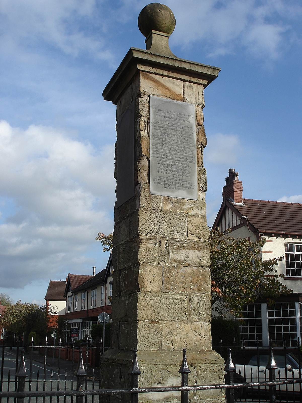 Monument to Sir Thomas Tyldesley, Royalist commander killed at the Battle of Wigan Lane, 25 August 1651. Erected by Alexander Rigby, High Sheriff of Lancashire.